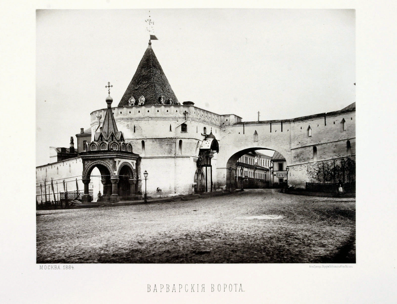 Plate 38: Varvarskie gates.